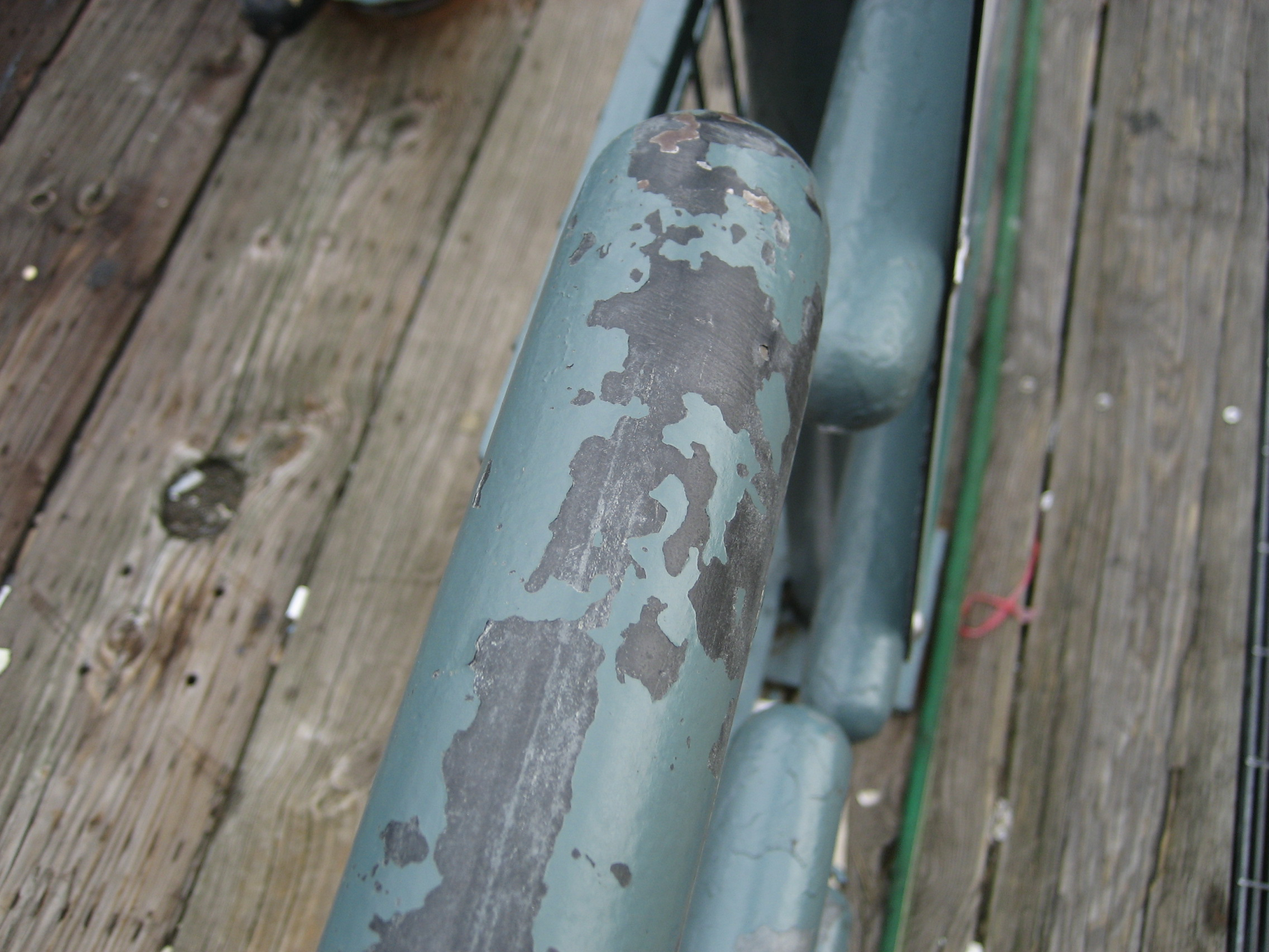 Paint adhesion failure in handrail.